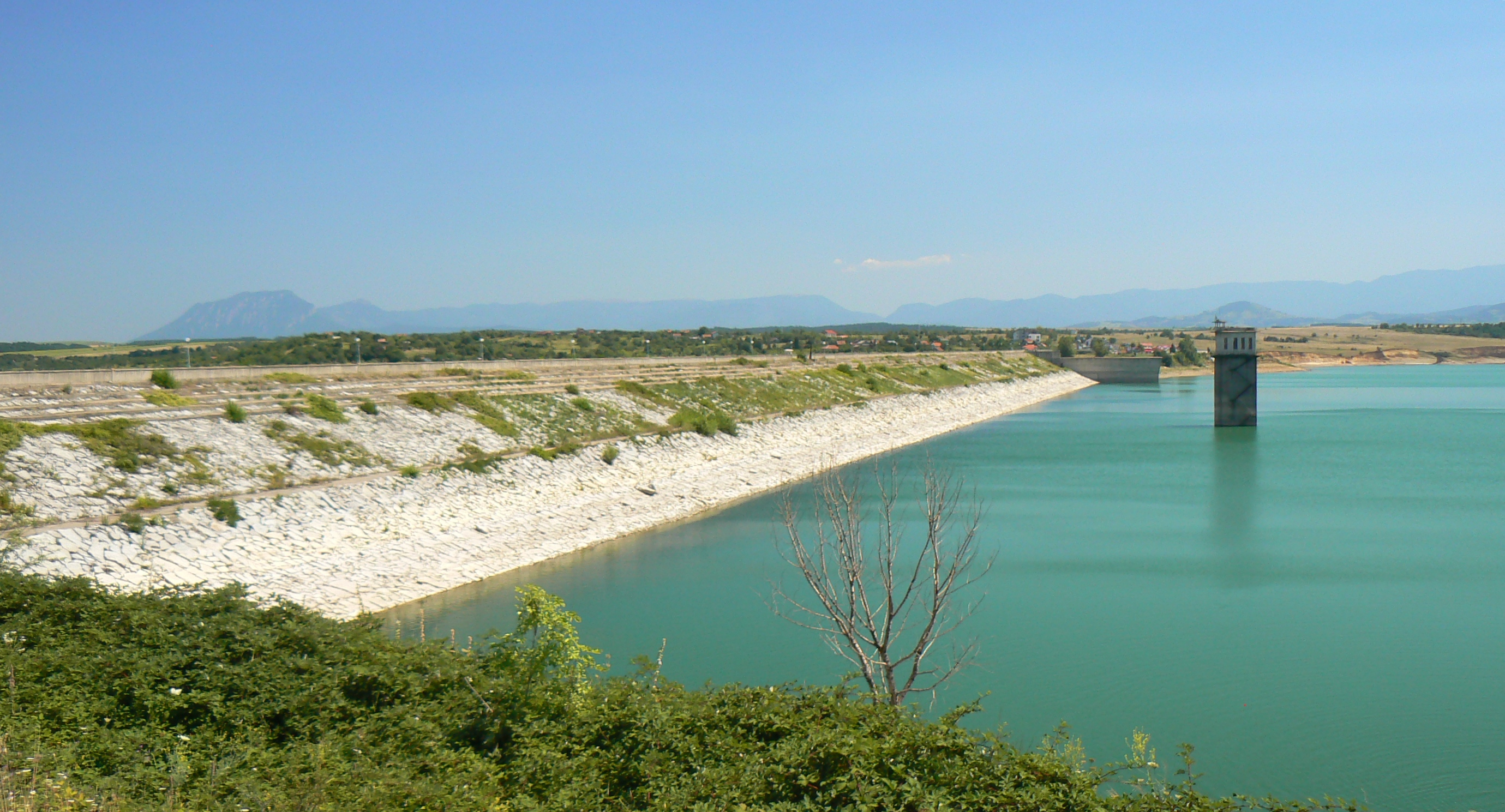 The wall of reservoir "Ogosta" near town Montana, Bulgaria.